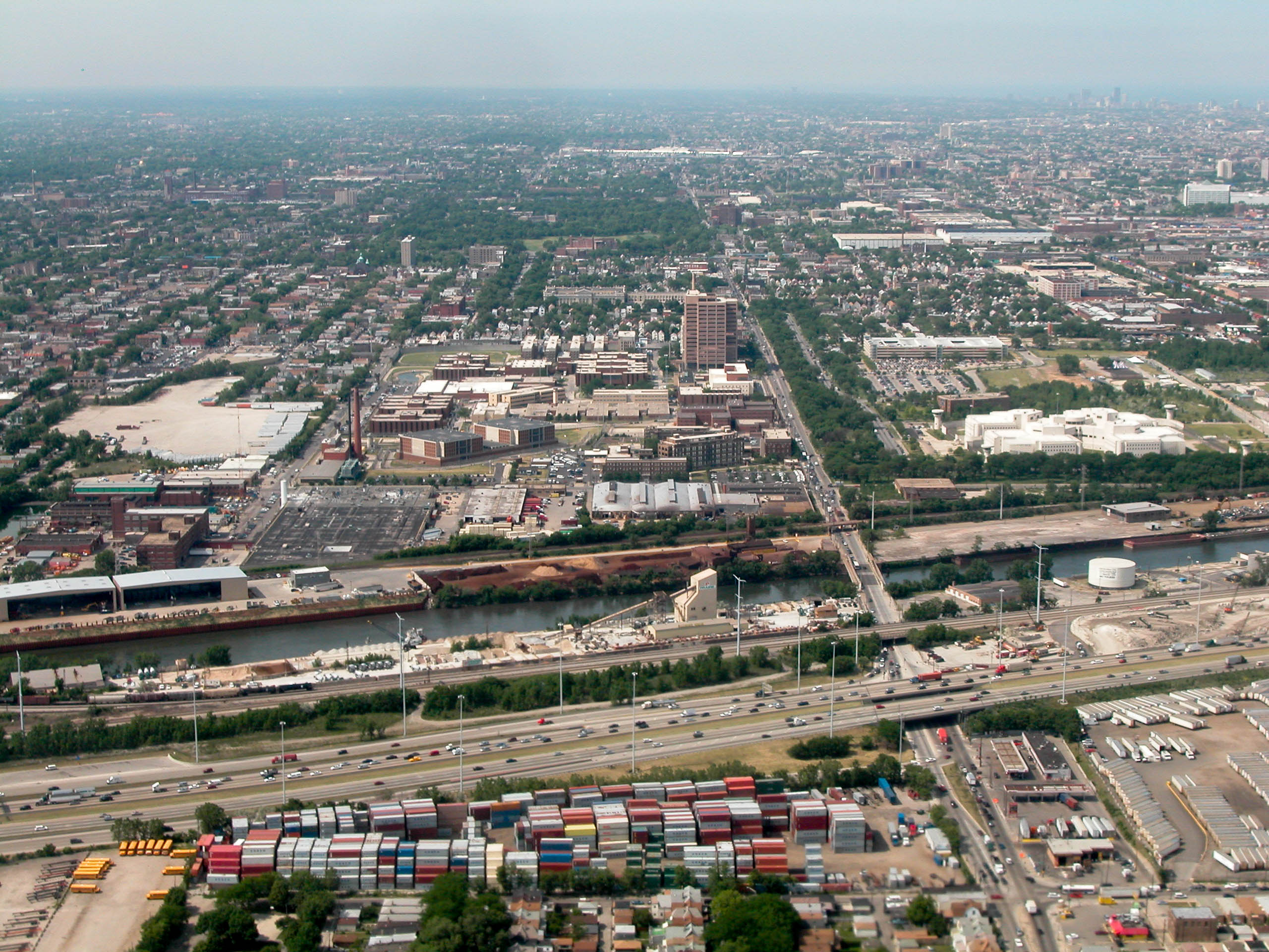 20050609 23 Cook County Jail complex